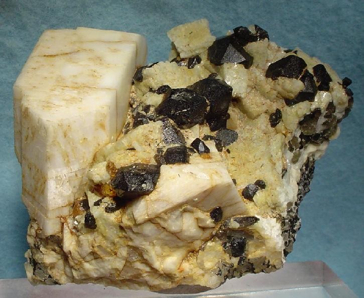 Spessartine, Quartz (Var.: Smoky Quartz), Orthoclase Locality: Elba Island, Livorno Province, Tuscany, Italy (Locality at ) Size: 7.0 x 5.2 x 5.1 cm. A classic, old-time and very showy combination specimen from the historic Elba Island of Italy. Extremely gemmy, orange spessartine garnets to 4 mm and lustrous smoky quartz crystals are aesthetically scattered on the orthoclase crystal matrix. The sharp, 4.0 x 2.2 cm, pearlescent, Carlsbad-twinned orthoclase crystal is superb. Ex. Richard Hauck Collection.